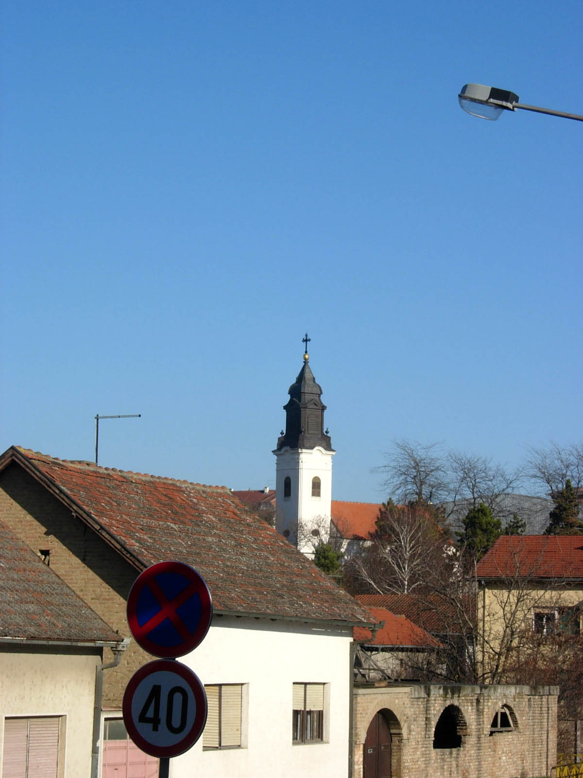 The Orthodox church in Inđija.